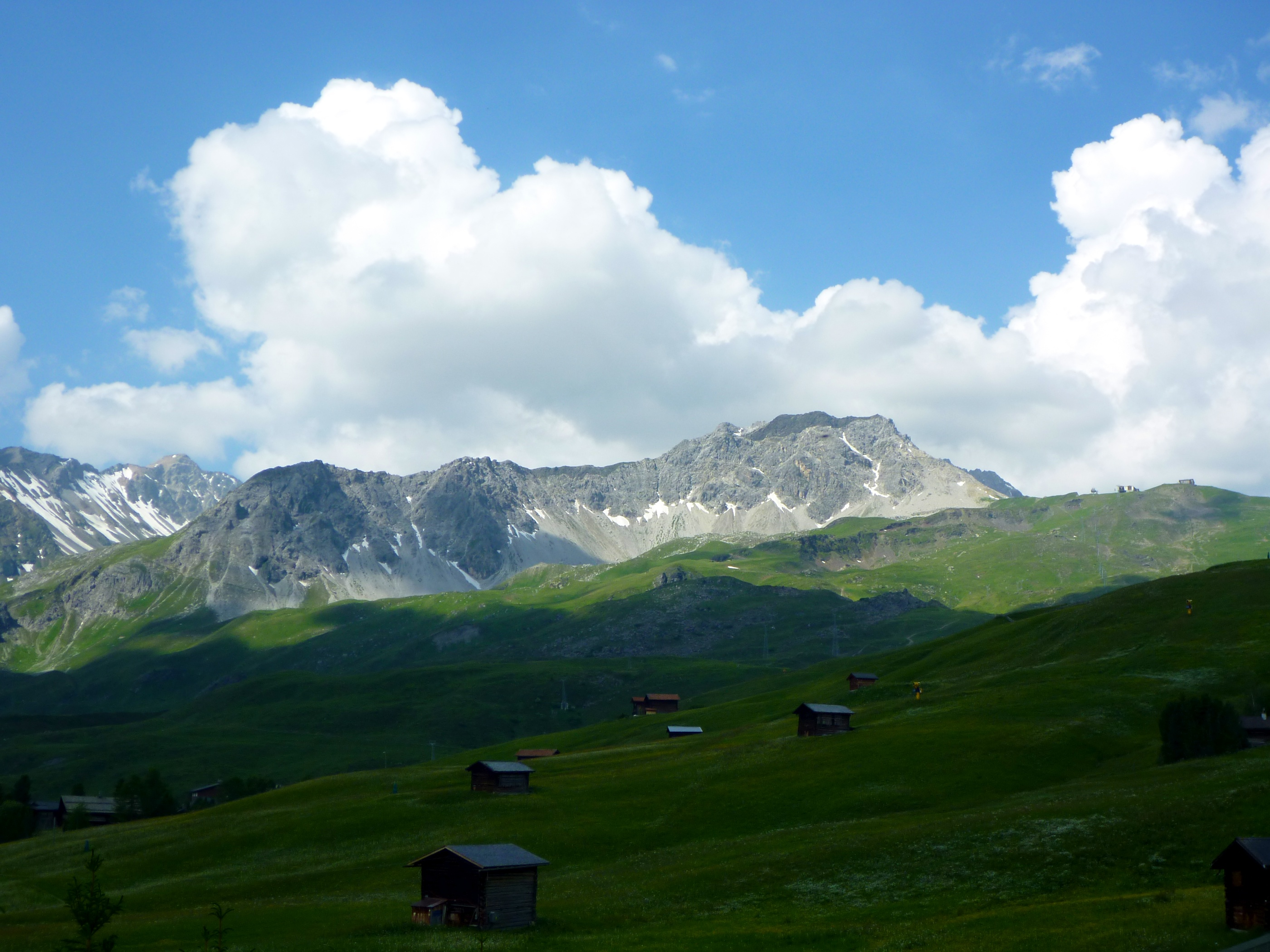 Tschirpen seen from Inner-Arosa